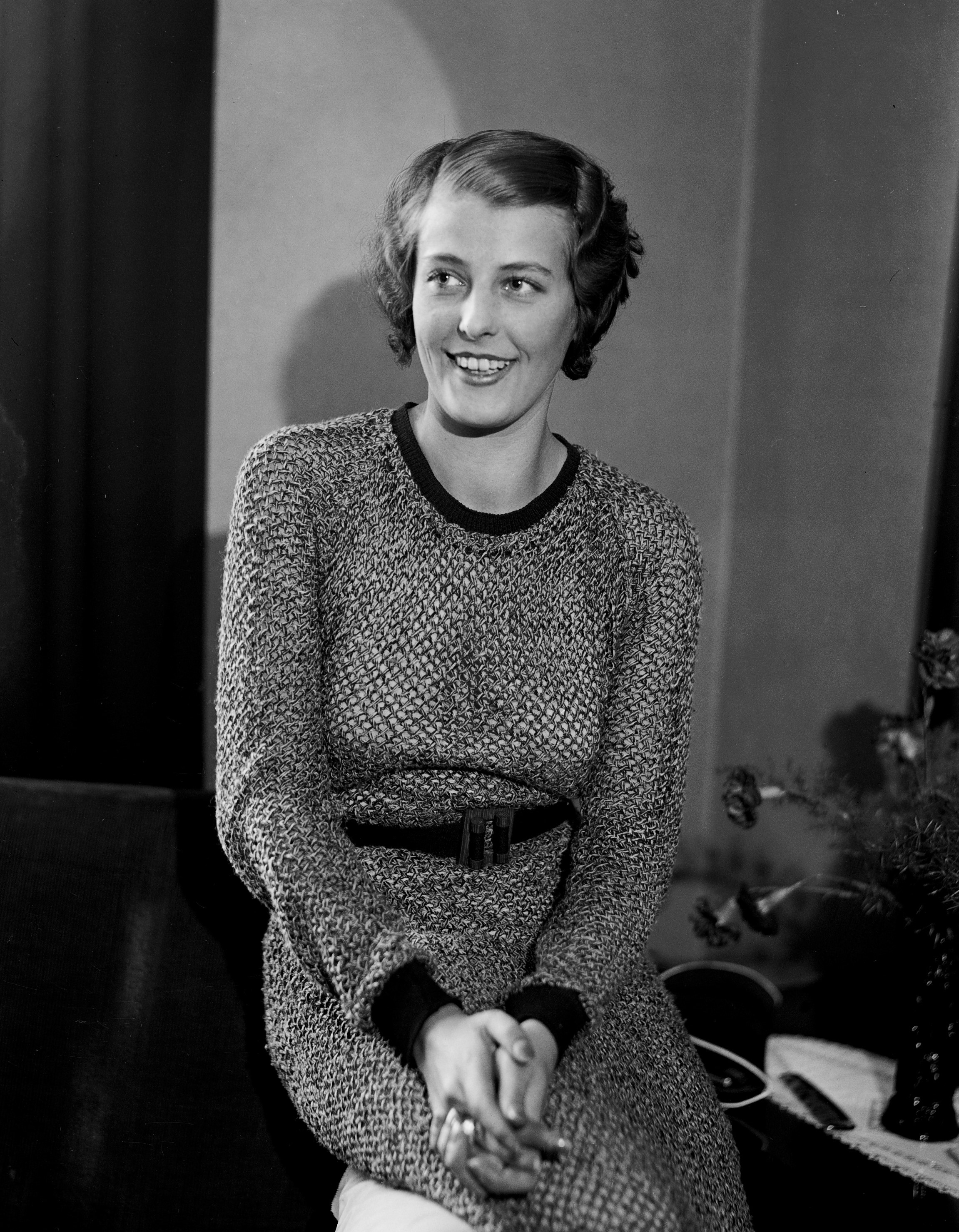 Ester Toivonen in 1934.